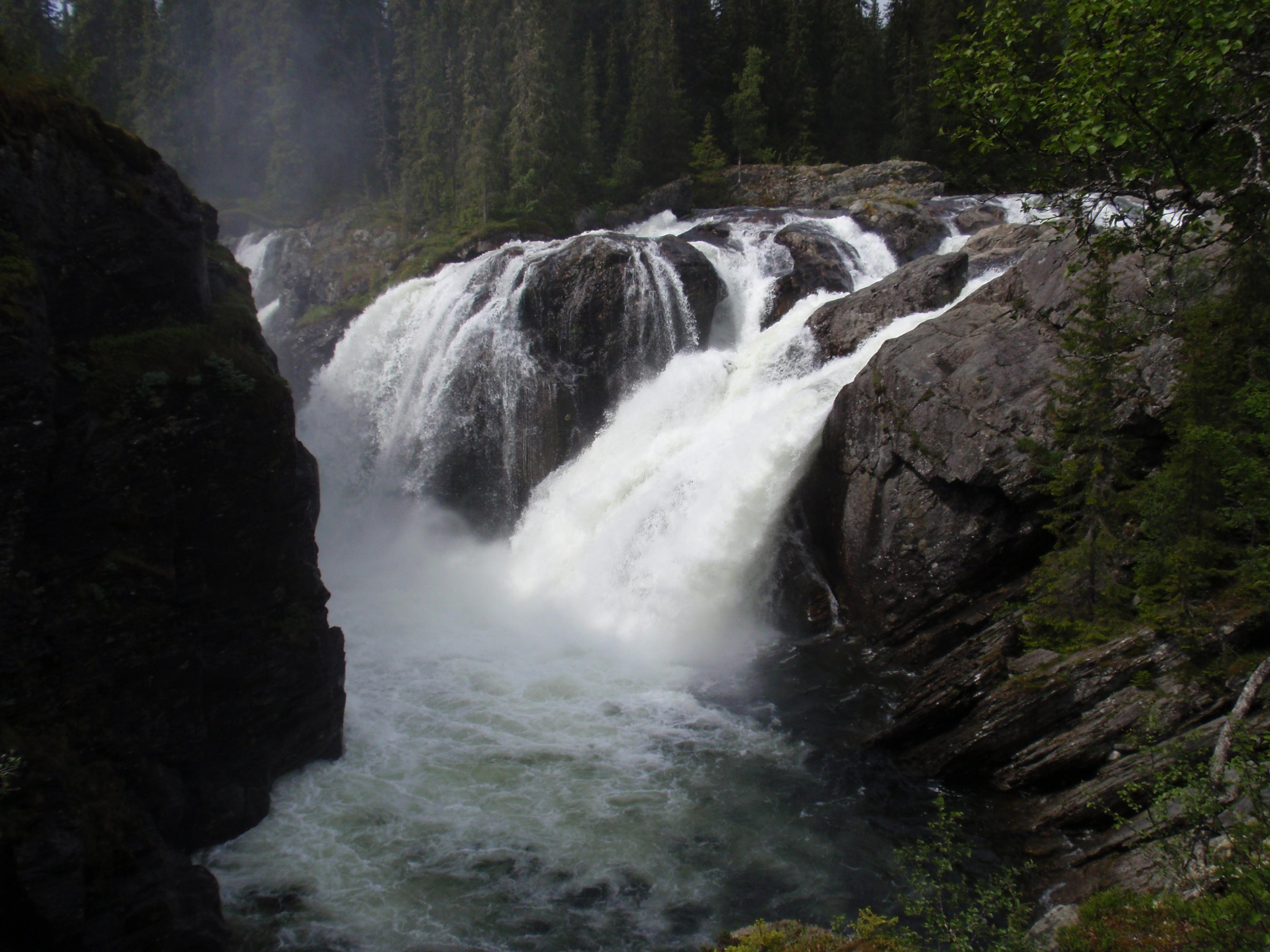 Rjukandefossen (waterfall) in vicinity of the city Tuv in the municipality of Hemsedal, Norway.